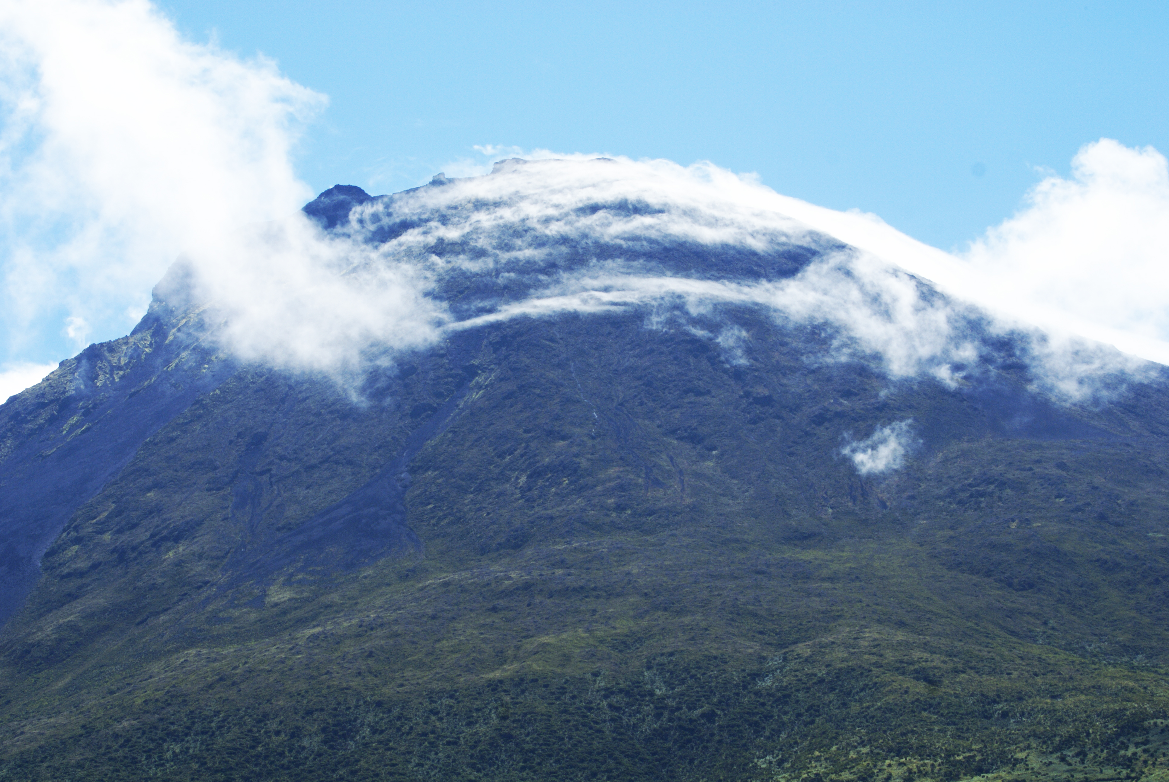 Montanha do Pico, aspectos, próximo ao cume 5 ilha do Pico, Açores, Portugal